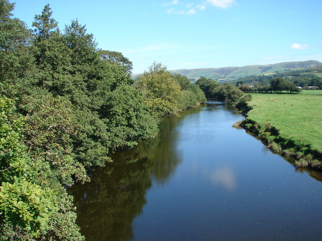 Afon Dyfi, near to Cemmaes Road, Powys, Great Britain. A view upstream from the Jubilee Bridge near Mathafarn.